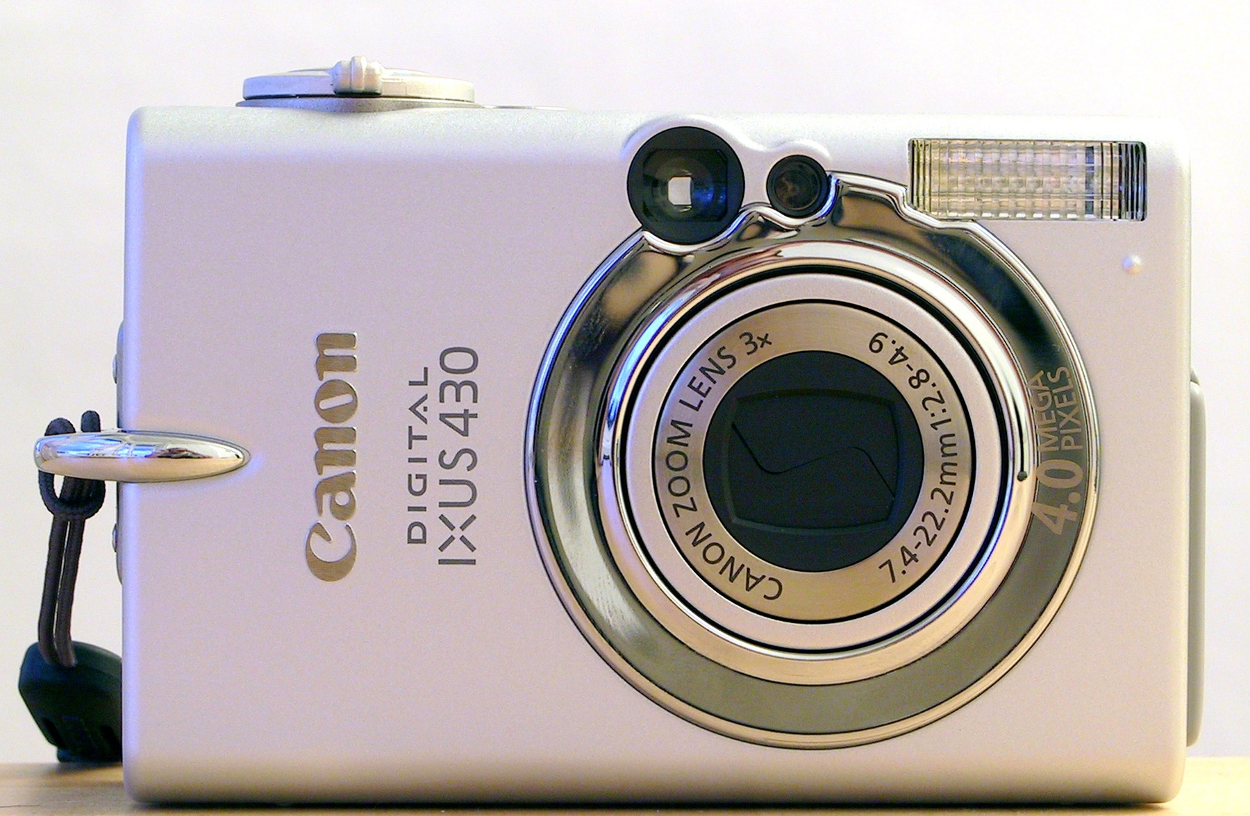 Canon Digital IXUS 430 digital camera